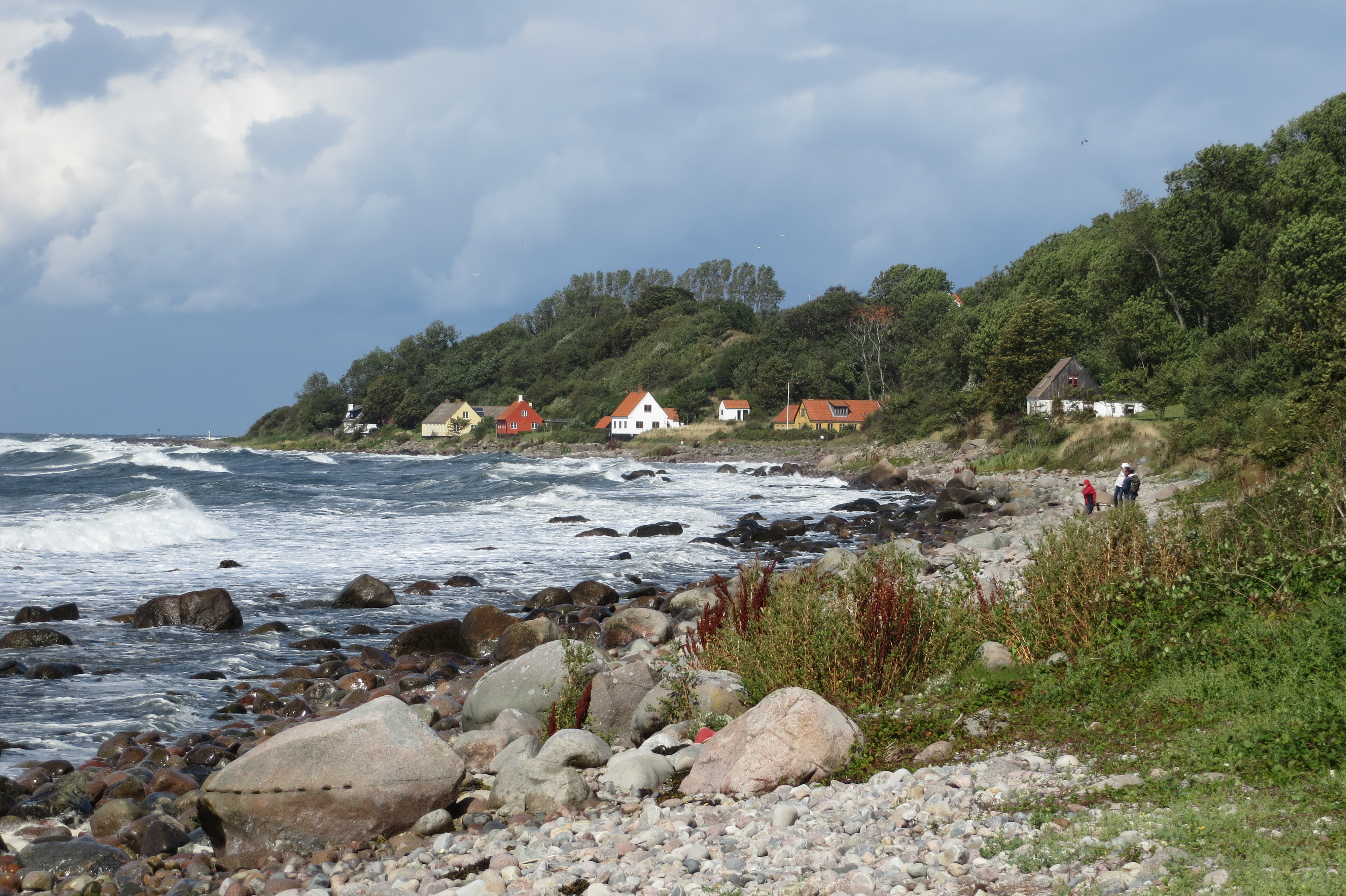 Helligpeder, Bornholm